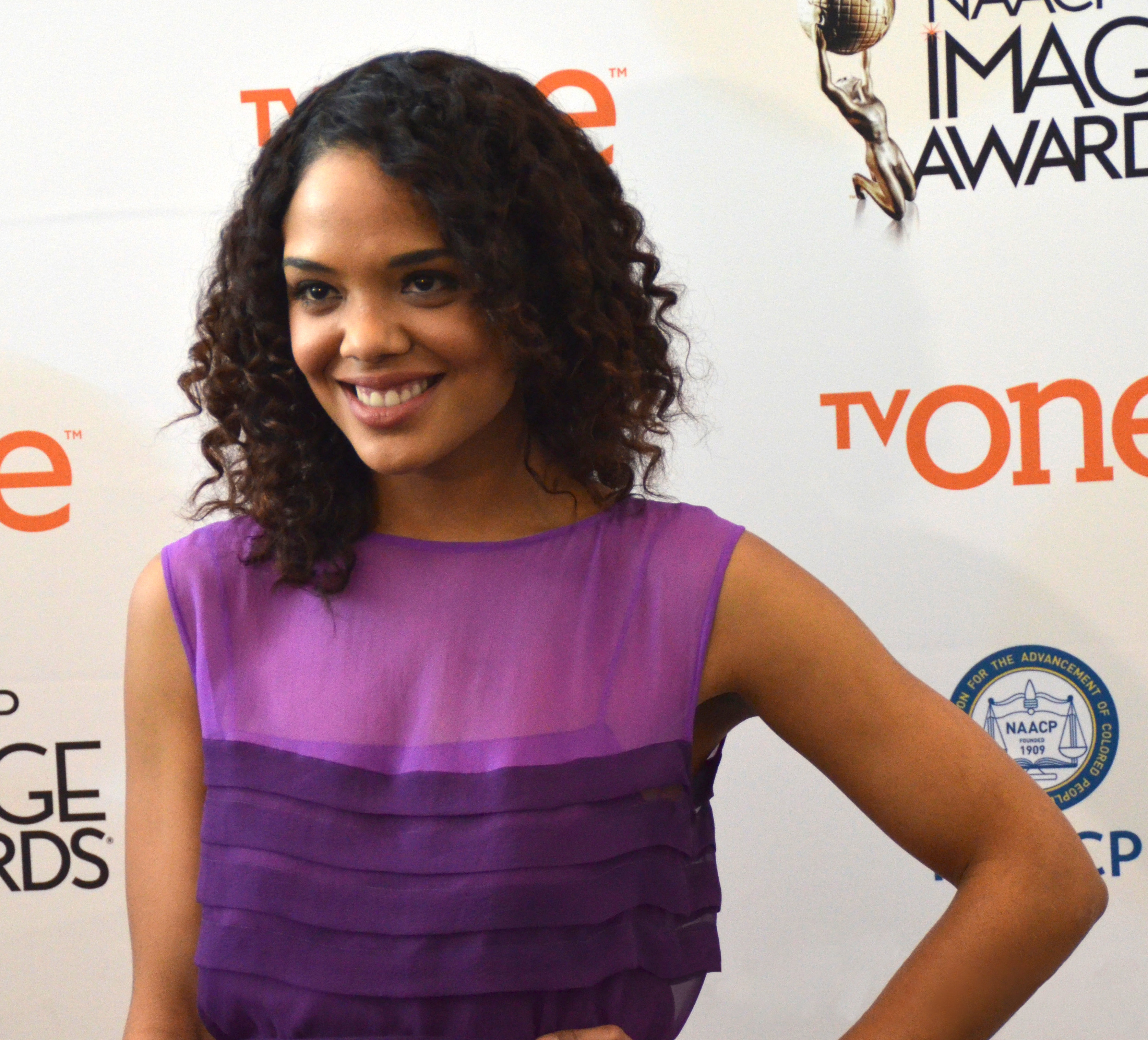 Tessa Thompson at the 46th NAACP Image Awards Nominee Press Conference at the Paley Center for Media in Beverly Hills, CA.